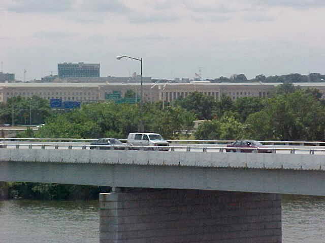 The 14th Street Bridge complex as seen from the Yellow Line of the Washington Metro. The Pentagon is visible in the background.